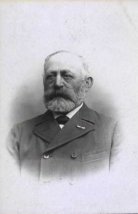 Danish politician, MP Anton Gregers Lassen (1832-1911)